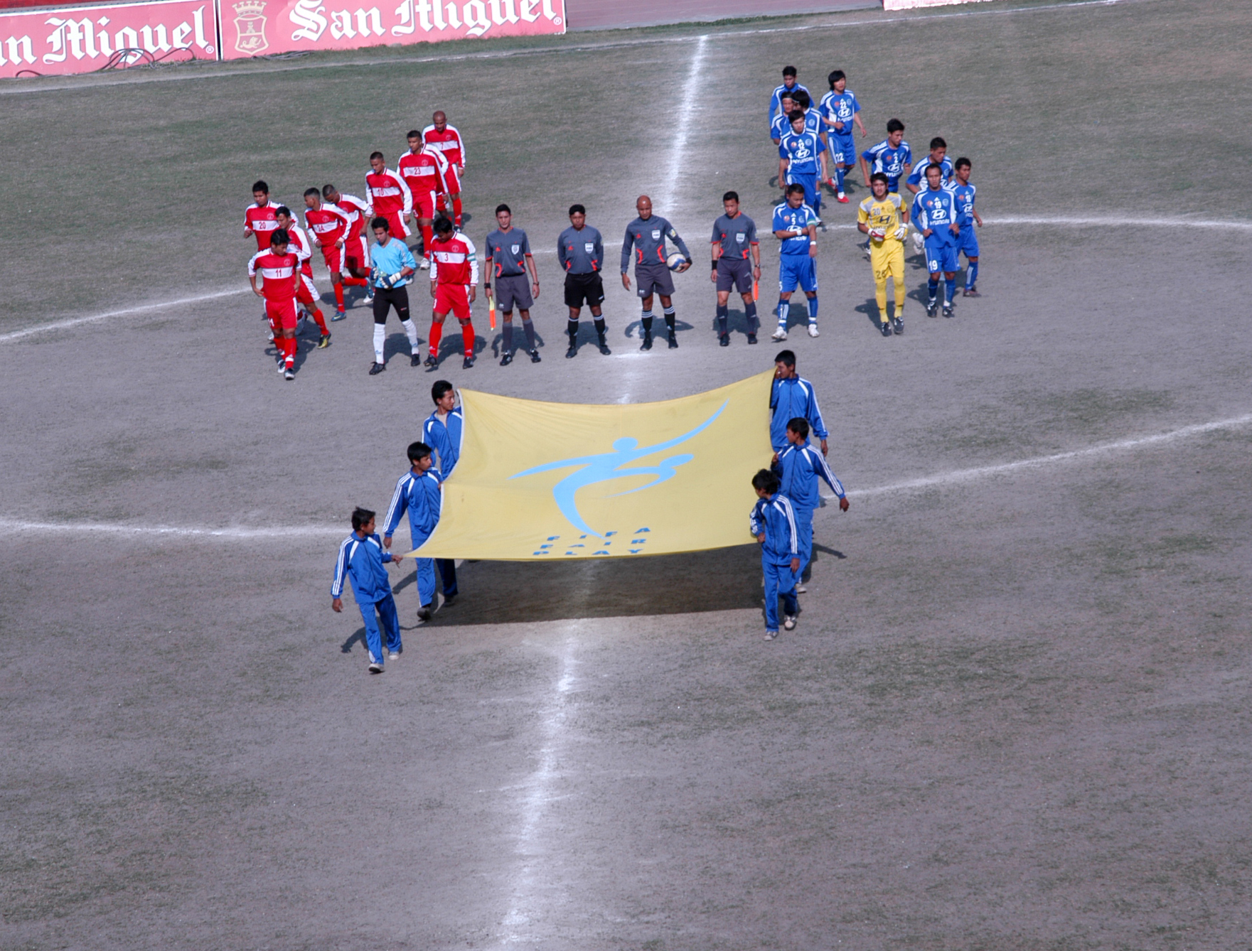 Player of Nepal Police Club